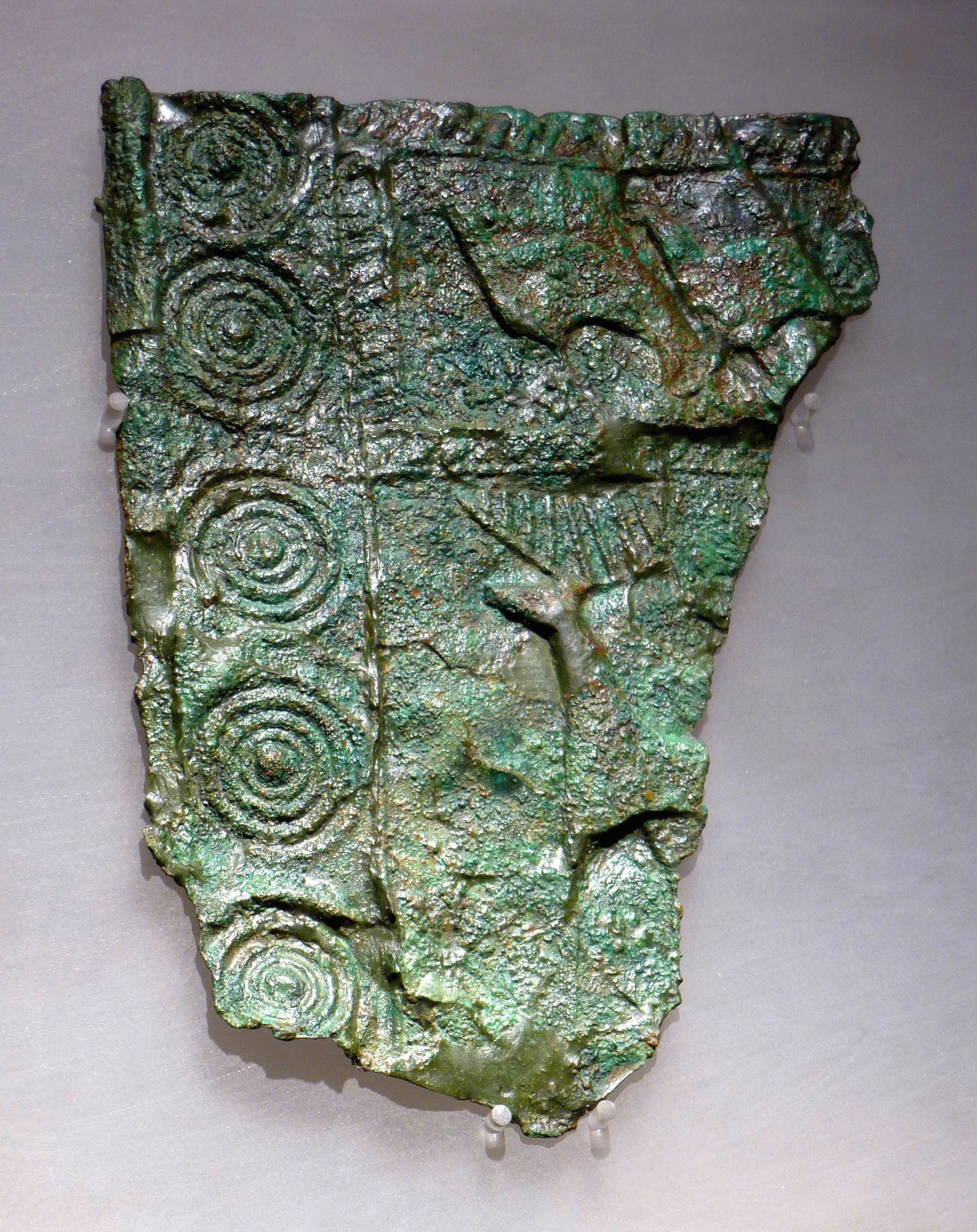 Decorated bronze plaque from El Llano de la Horca.